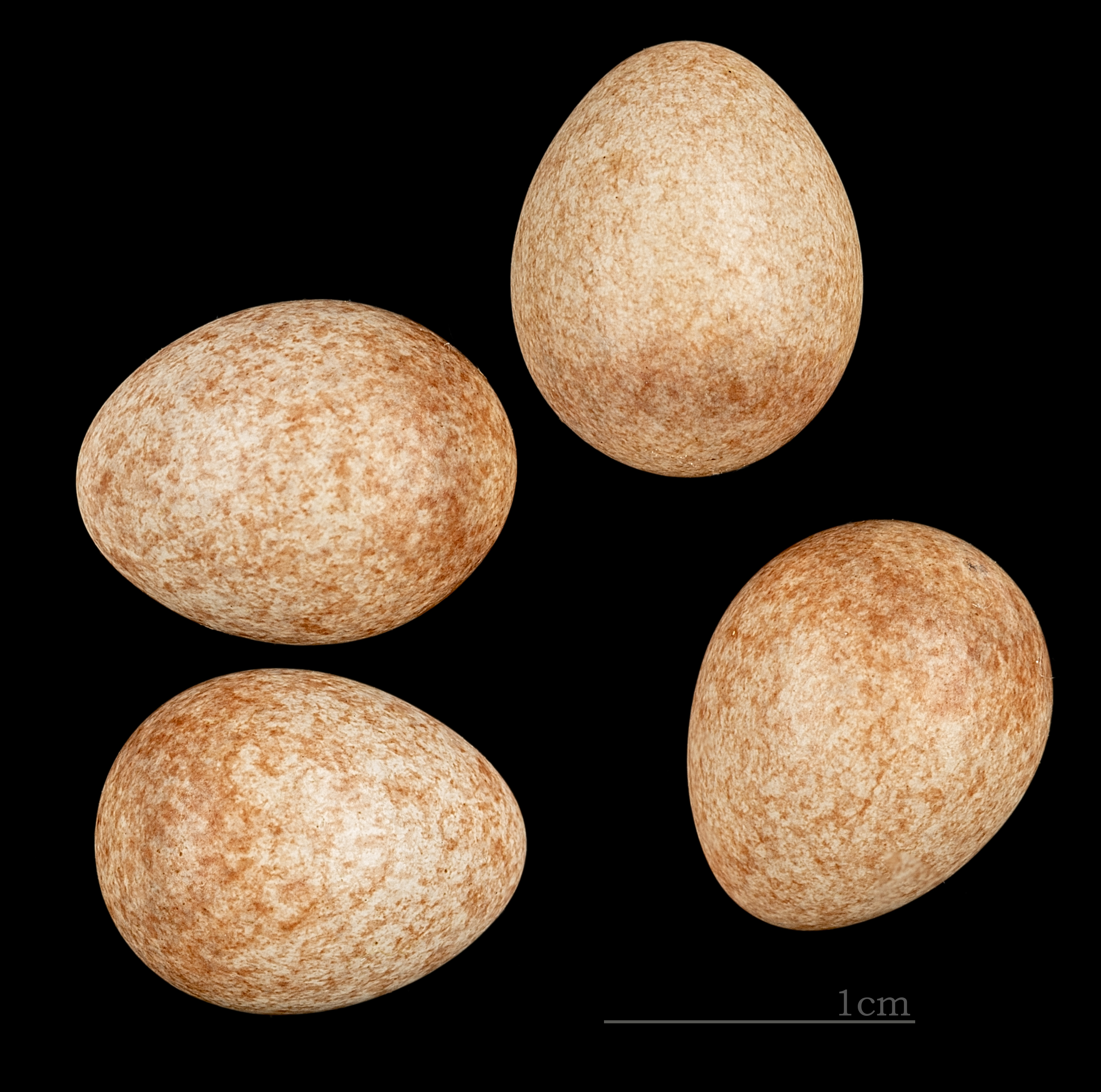 Egg of Graceful Prinia. Collection of Jacques Perrin de Brichambaut